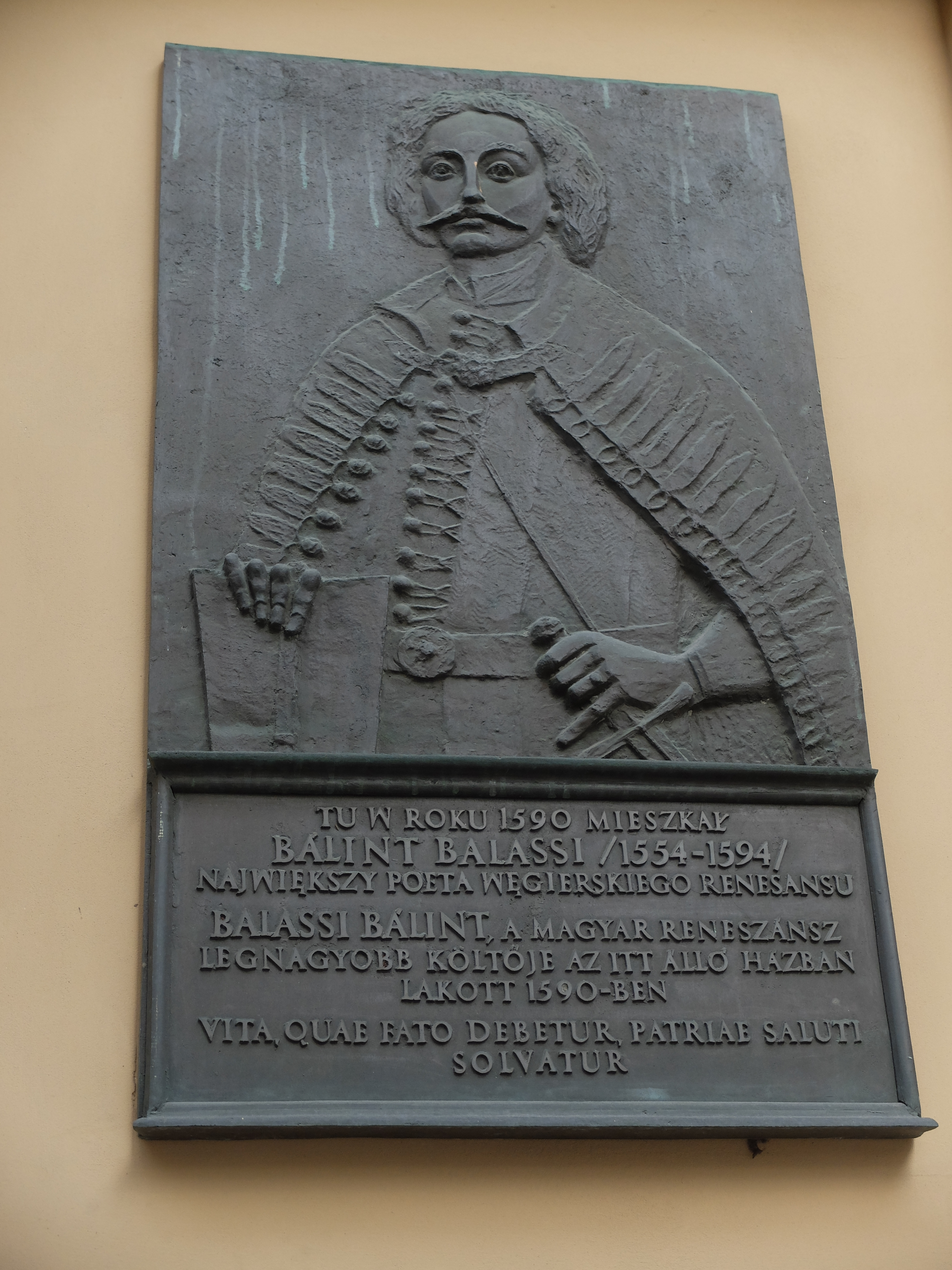 here-lived plaque of Balint Balassi, Pałac pod Baranami in Kraków